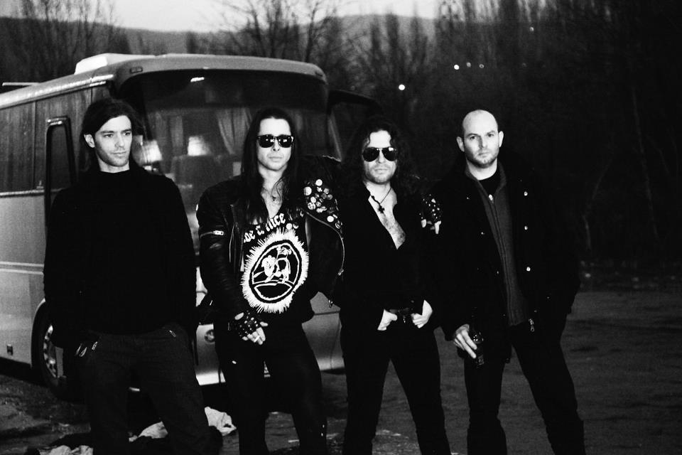 Official picture of Soror Dolorosa in Bilbao, 2012